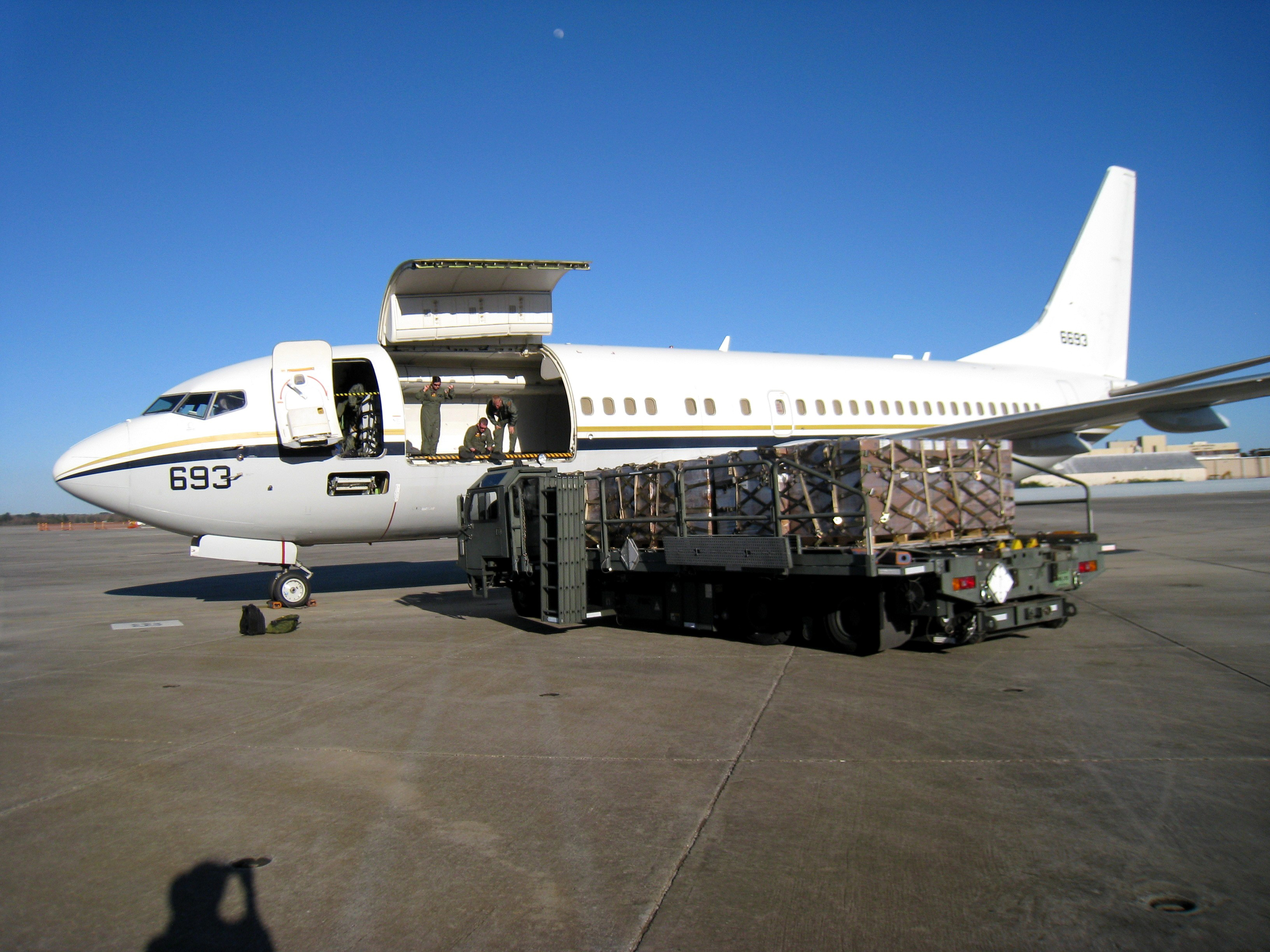 JACKSONVILLE, Fla. (Jan. 26, 2010) Naval Air Crewmen 2nd Class Nicole Garza and David Murray and Naval Air Crewman 1st Class David McDermott load cargo bound for Haiti at Naval Air Station Jacksonville. The supplies are in support of Operation Unified Response, a joint operation providing humanitarian assistance and disaster relief to Haiti after a 7.0 magnitude earthquake caused severe damage in and around Port-au-Prince Jan. 12. (U.S. Navy photo by Lt. Kendra Kaufman/Released)